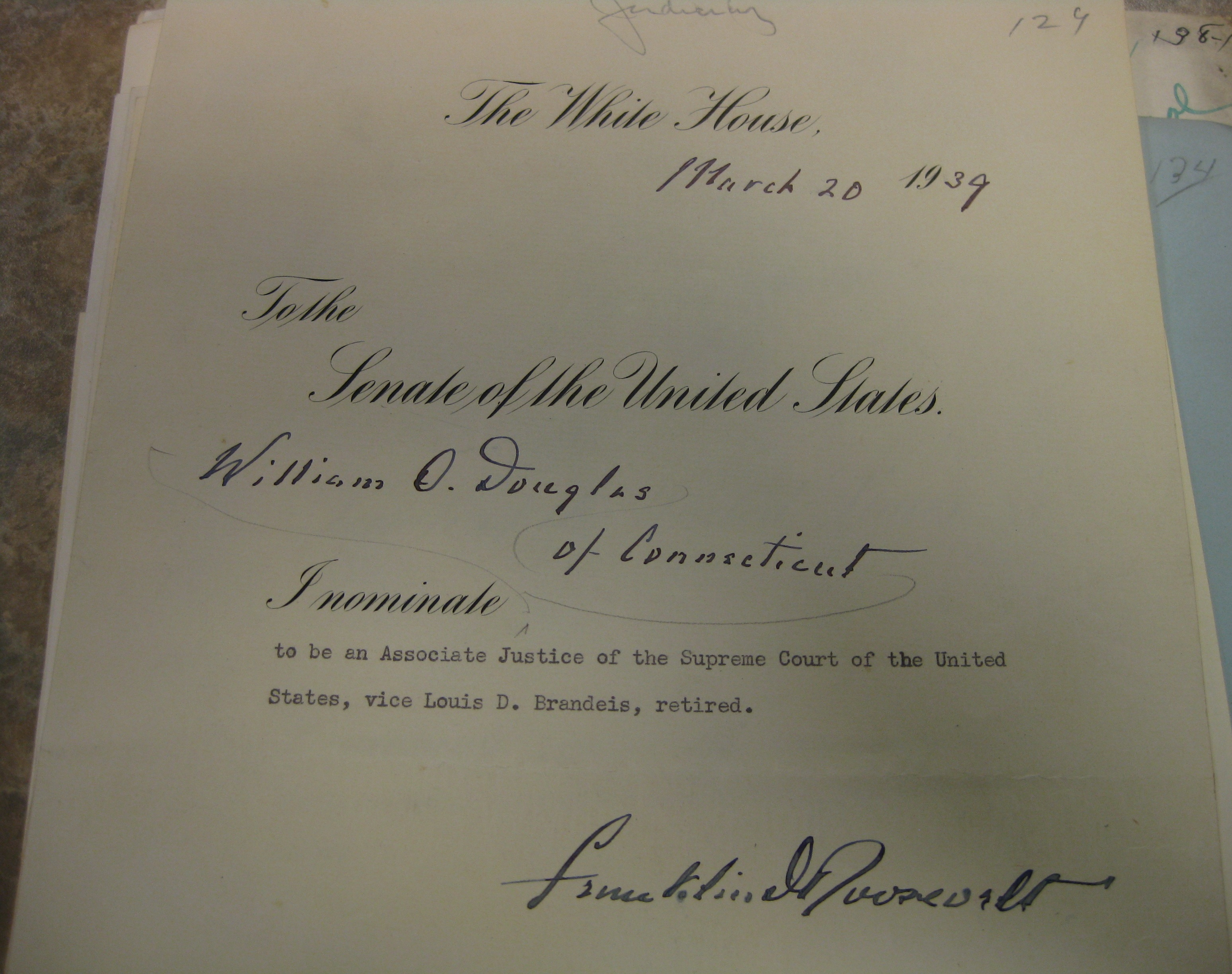 Franklin Roosevelt's nomination of William O. Douglas to serve on the U.S. Supreme Court. Courtesy of the National Archives and Records Administration.